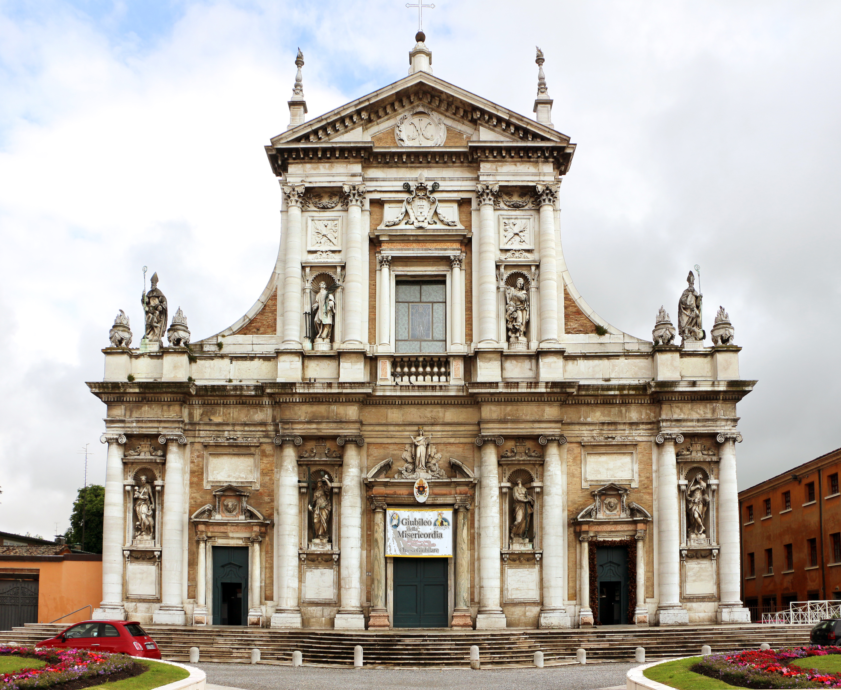 Santa Maria in Porto (Ravenna)